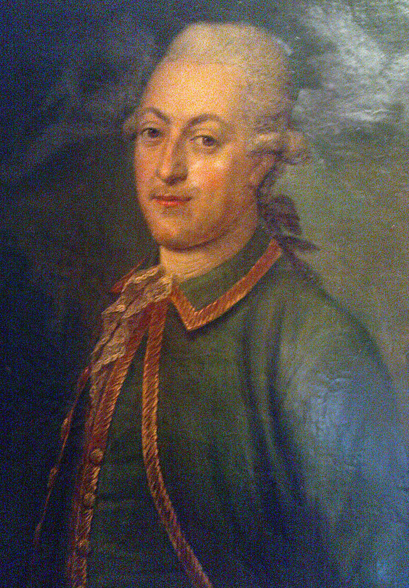 Adam Levin von Witzleben der Jüngere (* 17. Juni 1721; † 8. Juli 1766) from the Thuringia nobility family of Witzleben. He was a danish officer, renovator from the Hude and Elmeloh manor and Father from the poetess Henriette Eleonore Agnes von Witzleben. He crated on 28.Juli 1748 the freemason lodge named Abel in Oldenburg.